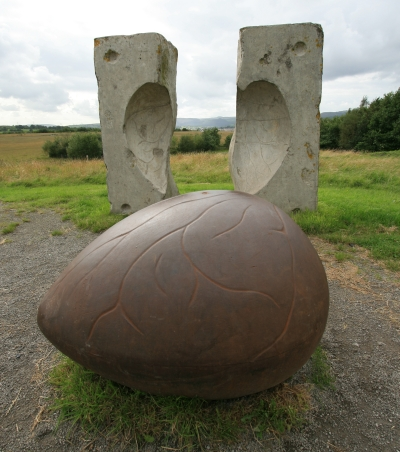 Breaking the Mould by Andrew McKeown at Parc Penallta Country Park near Caerphilly, Wales, UK